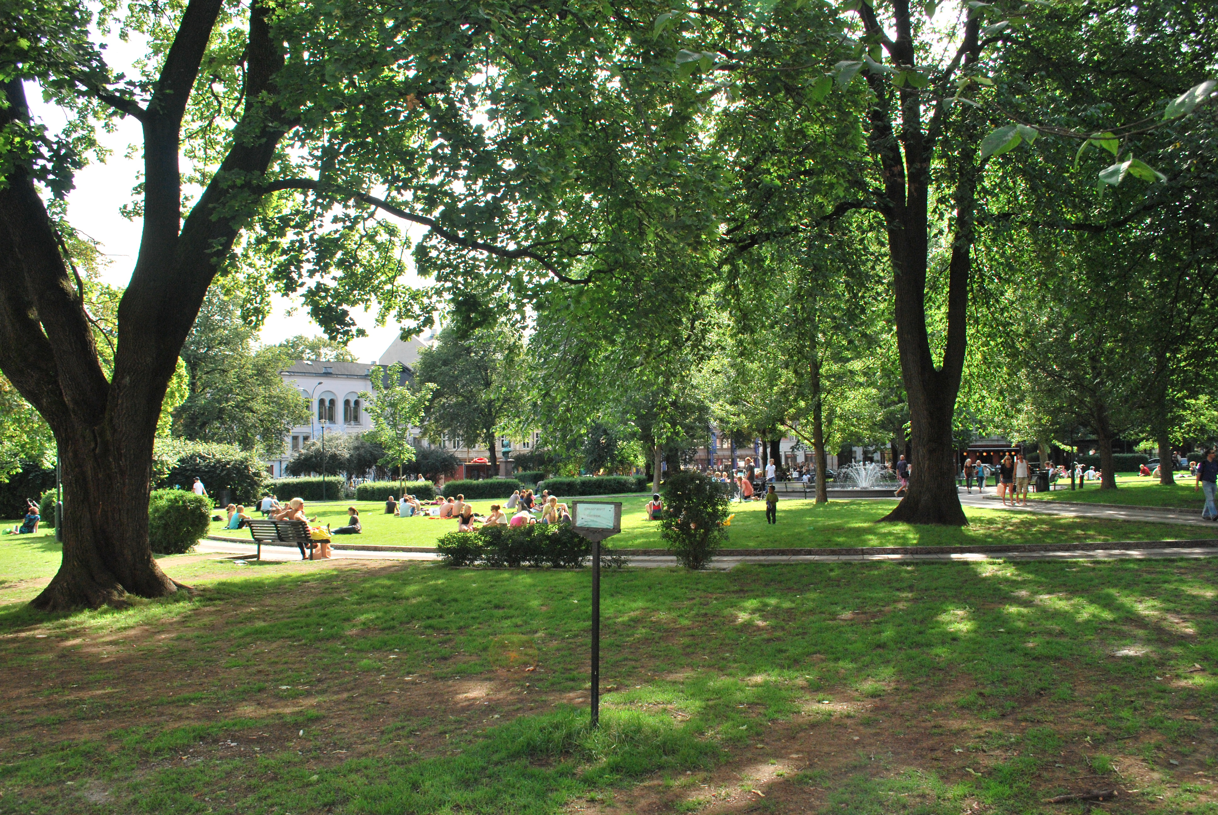 Olaf Ryes plass (square), Grünerløkka neighbourhood, Oslo